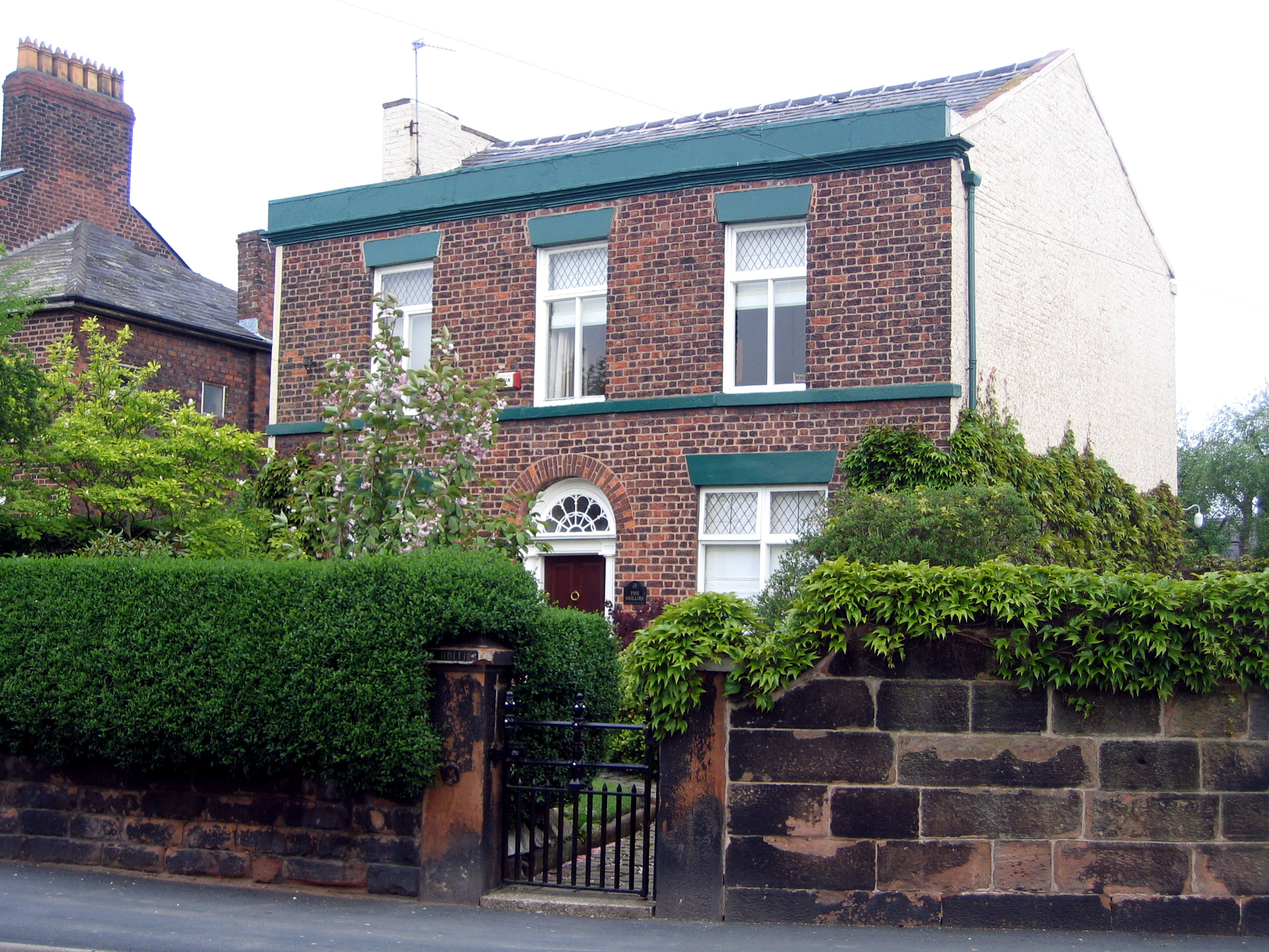 The Hollies, house in Derby Road, Widnes. From 1867 to 1873 the home of Ludwig Mond.